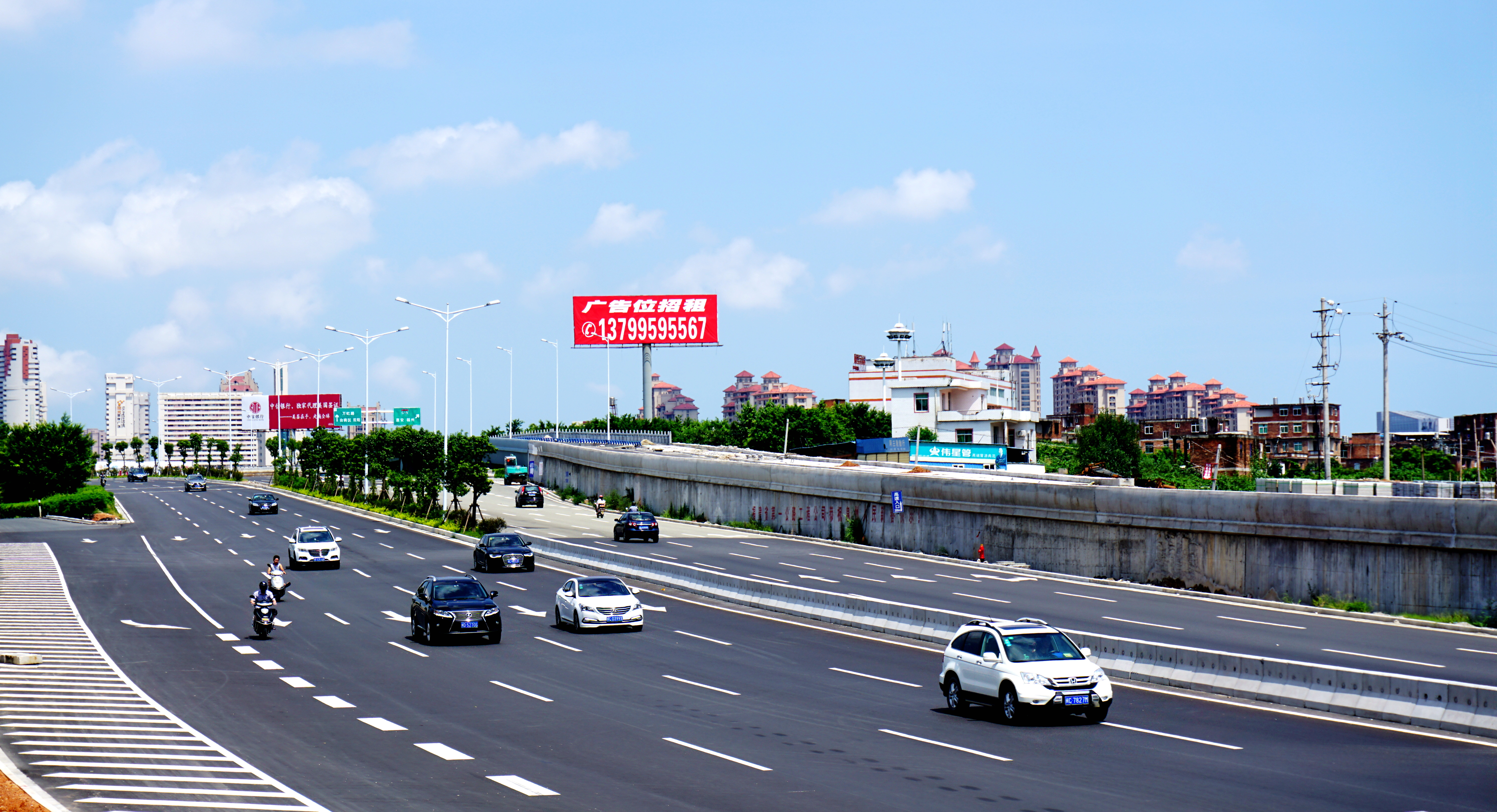 China National Highway G324 Line in Zayton City